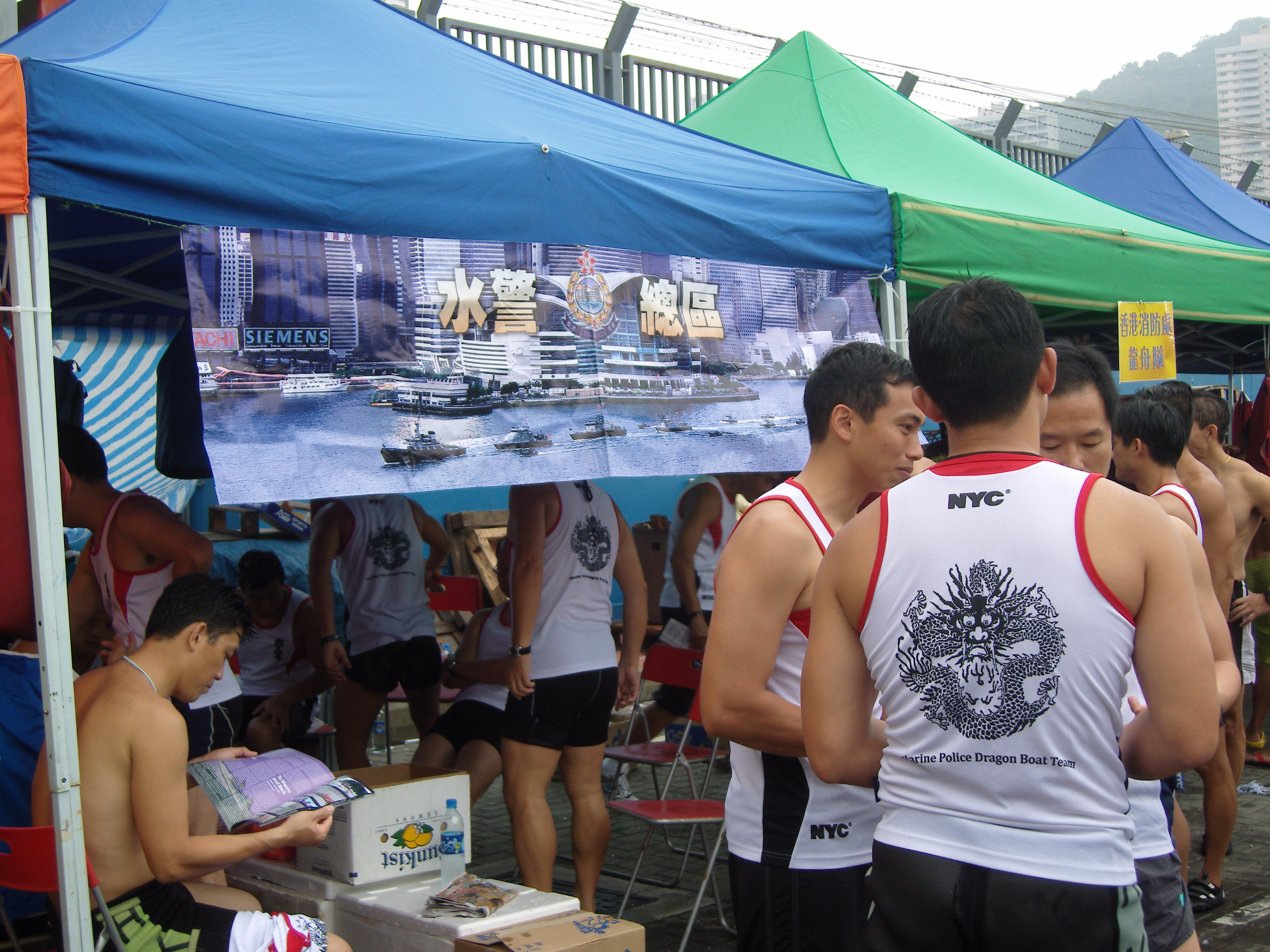 Eastern District Dragon Boat Race held in Wan Chai, Hong Kong.